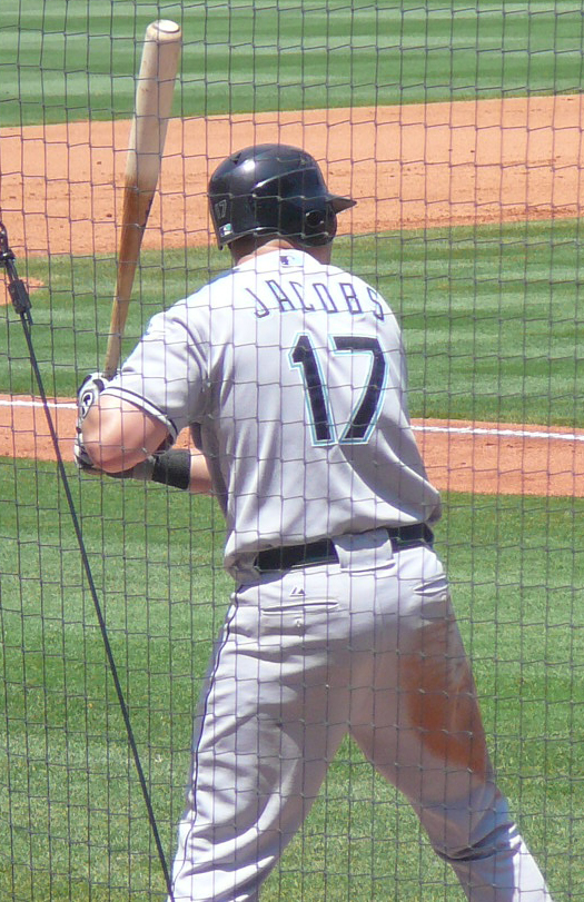 Please attribute photo with author's name if used somewhere other than Wikipedia. 18:41, 4 August 2008 . . Chrisjnelson . . 525×811 (484 KB)